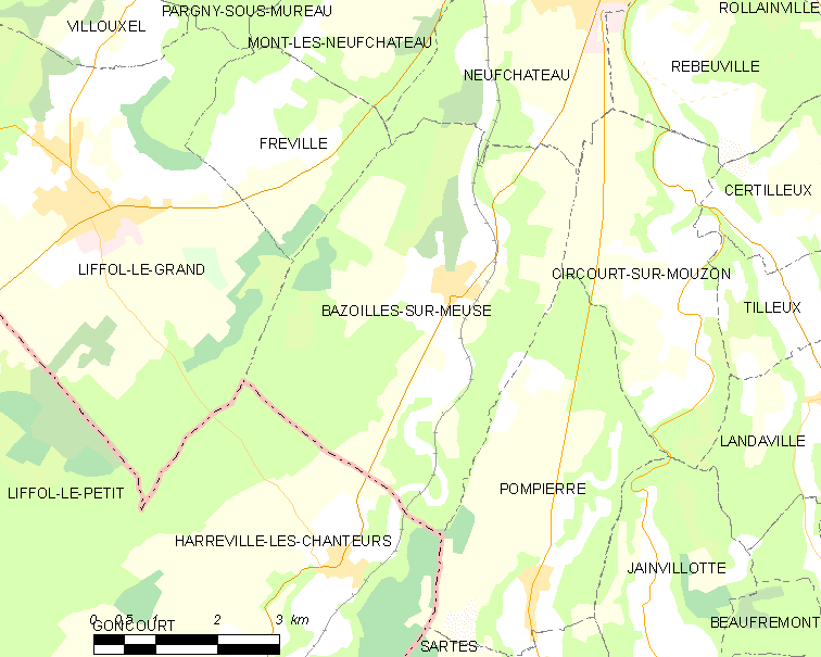 Map of French municipality Bazoilles-sur-Meuse